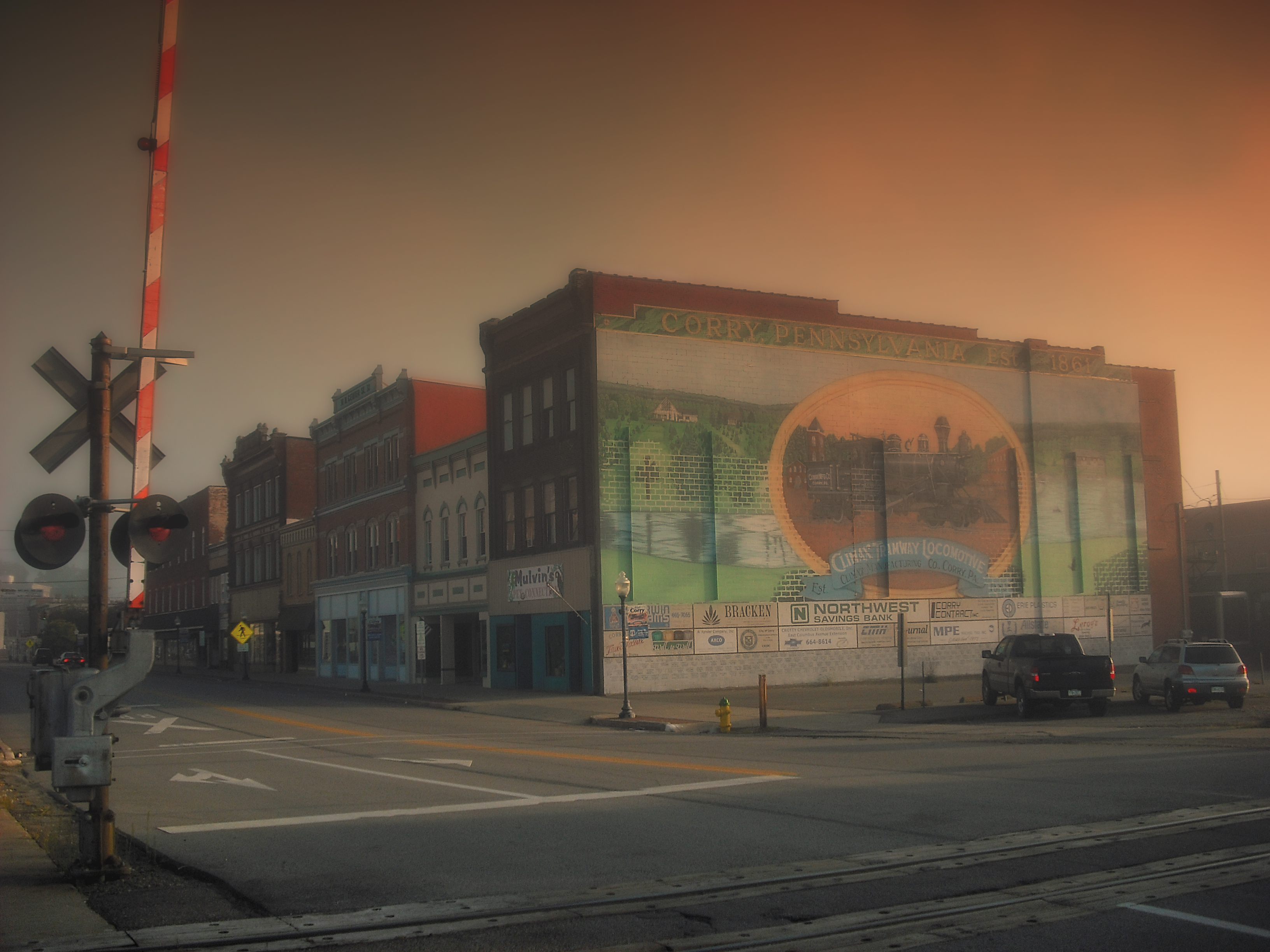 Early-morning light and fog, Corry, Erie County, Pennsylvania.